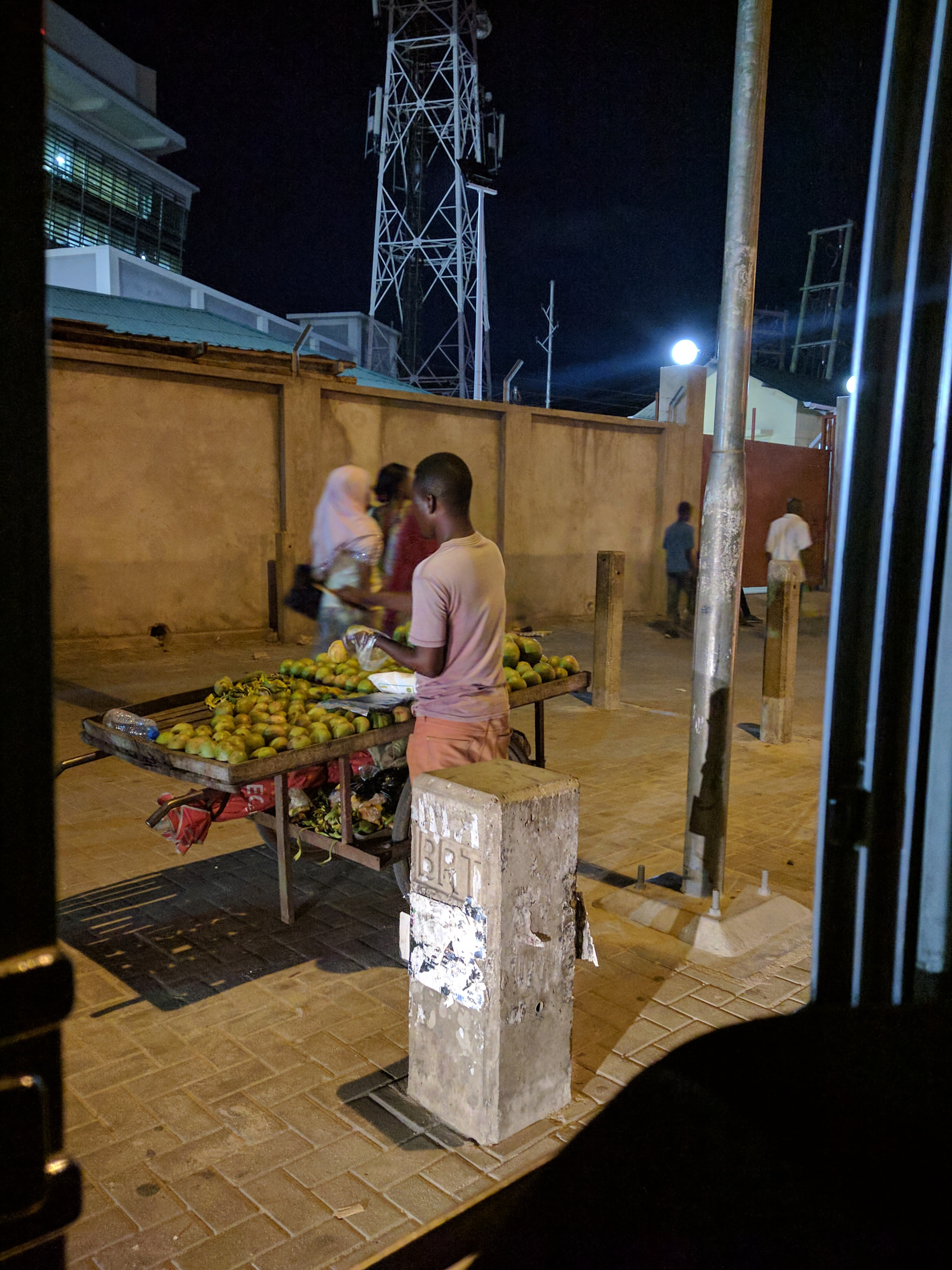 For many low-income people in Tanzania, the informal sector has provided a much needed economic advantage. Vendors like these blanket the city at night, making it truly vibrant as they earn their keep. This is an image of "African people at work" from Tanzania